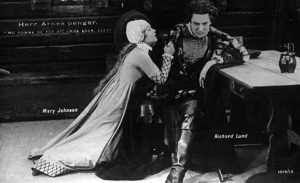 Richard Lund and Mary Johnson in the Swedish film Herr Arnes pengar (1919).